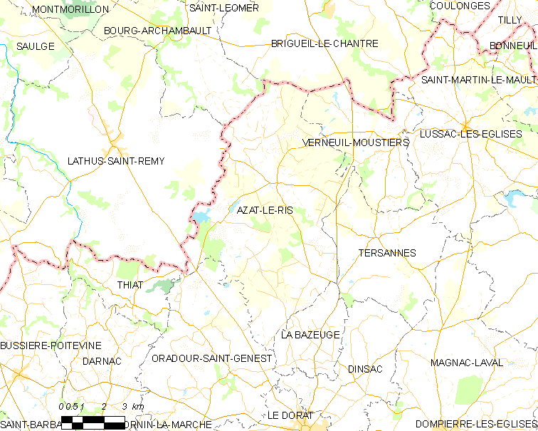 Map of French municipality Azat-le-Ris